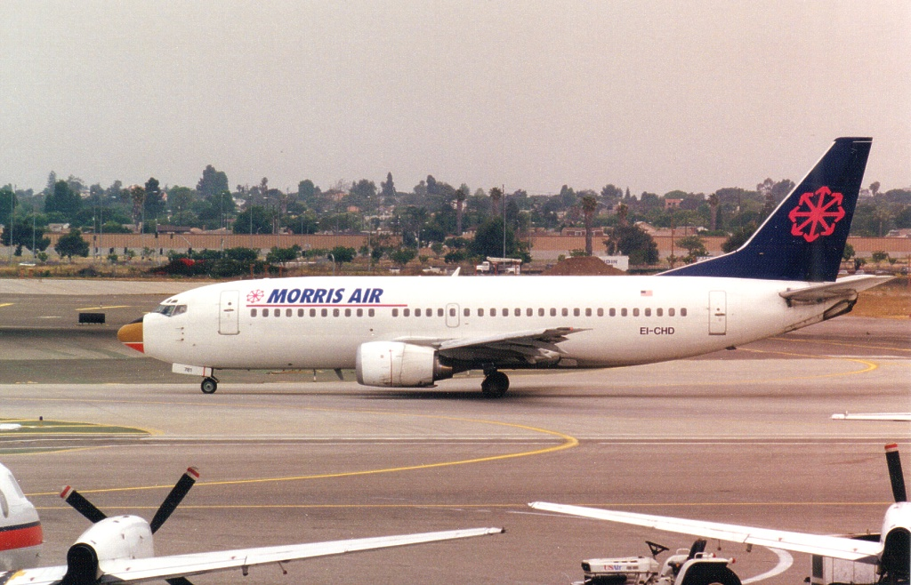 Morris Air 737 at LAX (Notice Southwest's colors on the replacement radome)